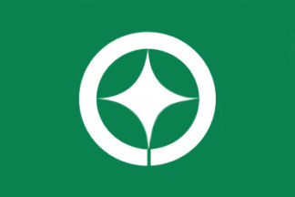 Flag of Tano Kochi